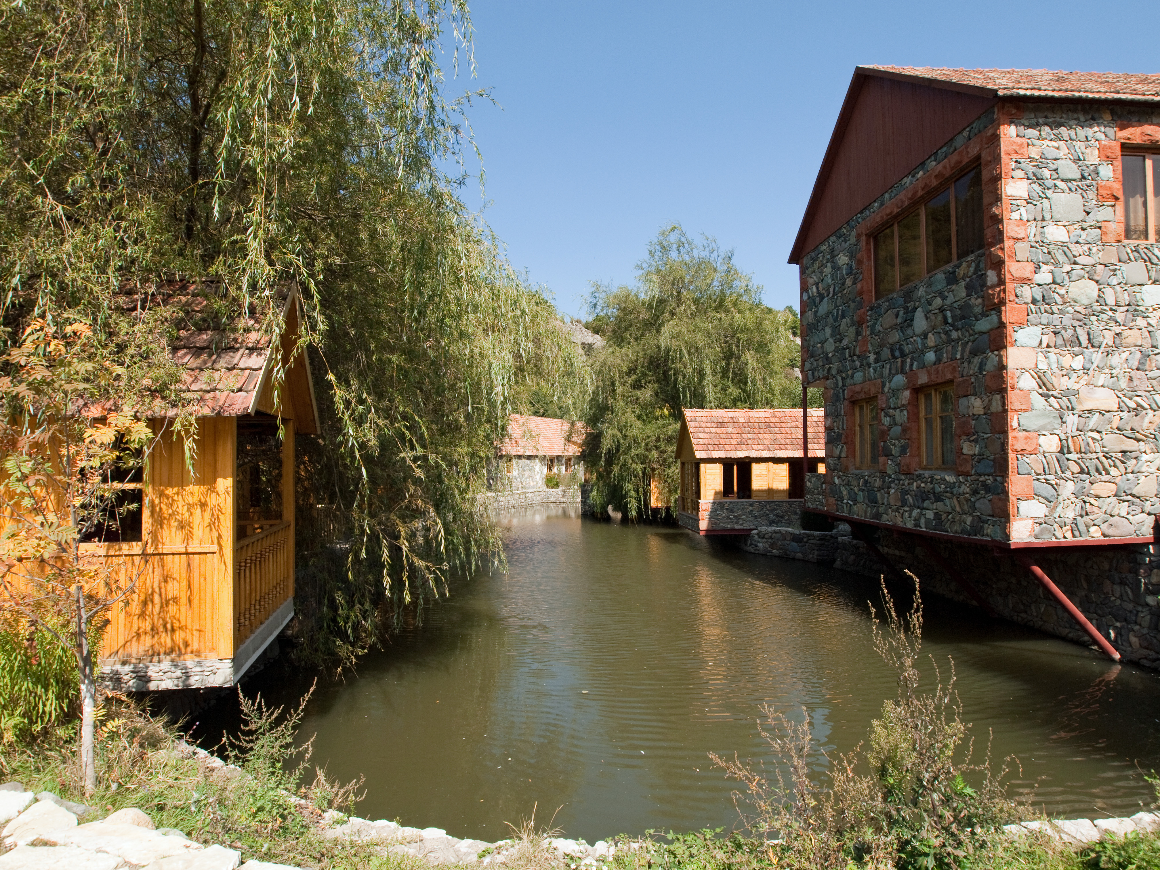 Reastaurants in Dilijan, Armenia